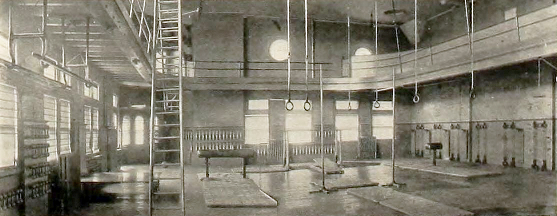 The interior of the old gymnasium where William G. Morgan developed volleyball in Holyoke, Massachusetts